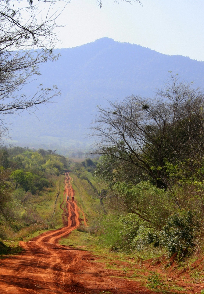 Mont Tres Kandu is the Paraguay's highest mountain, with a peak at 842 metres above sea level.